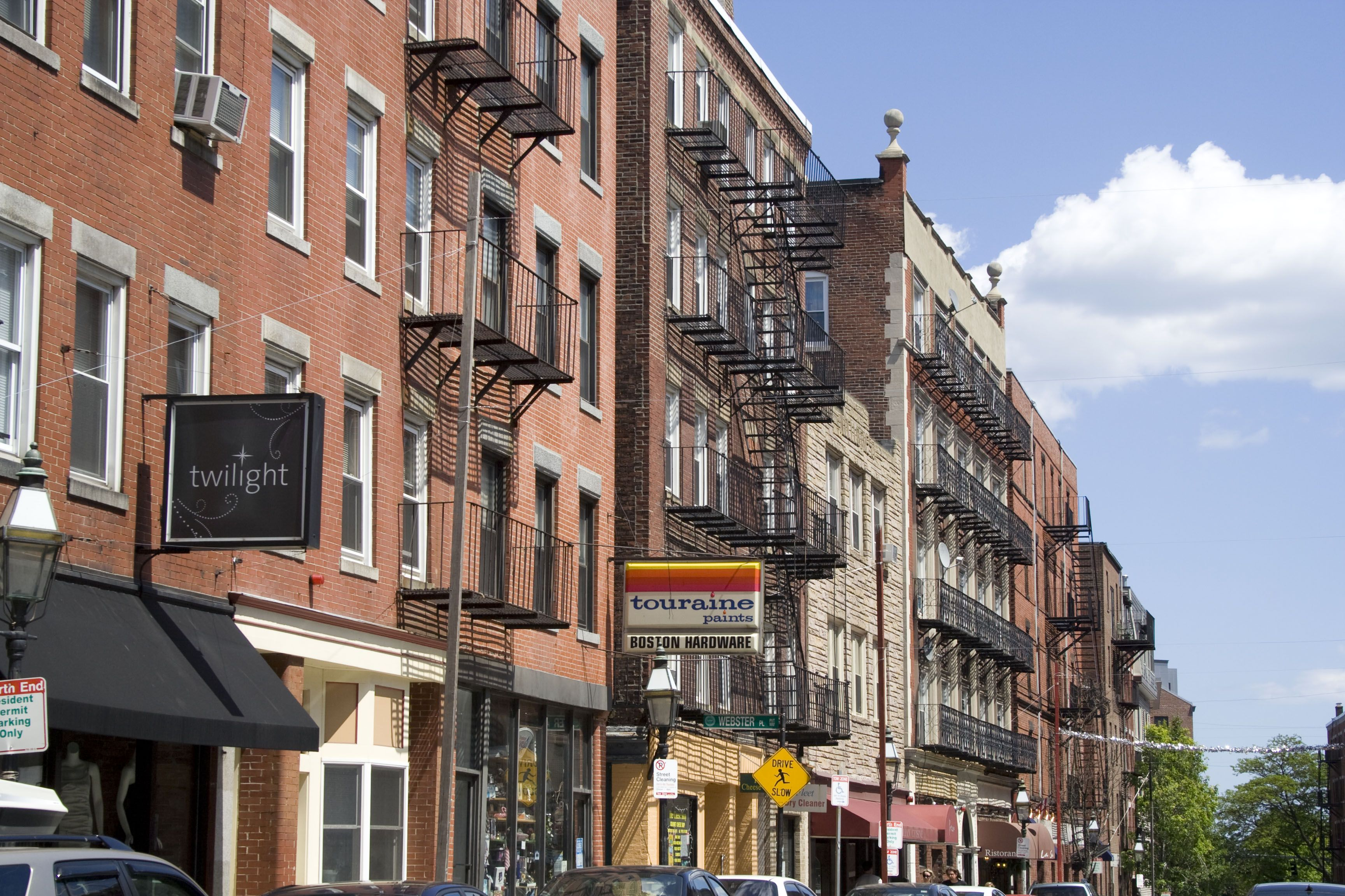 A street in the North End (little Italy), Boston (MA).